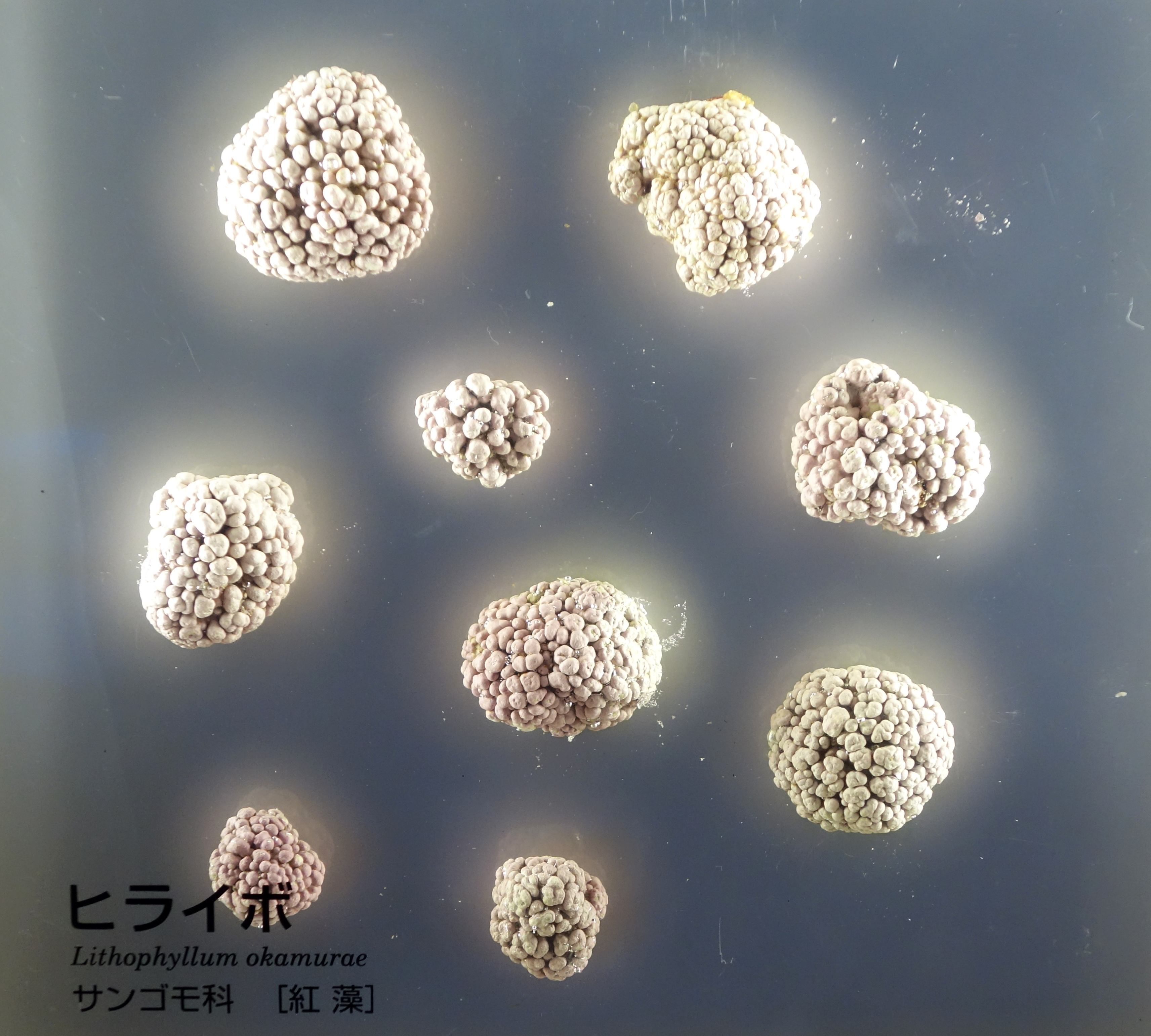 Exhibit in the National Museum of Nature and Science, Tokyo, Japan.